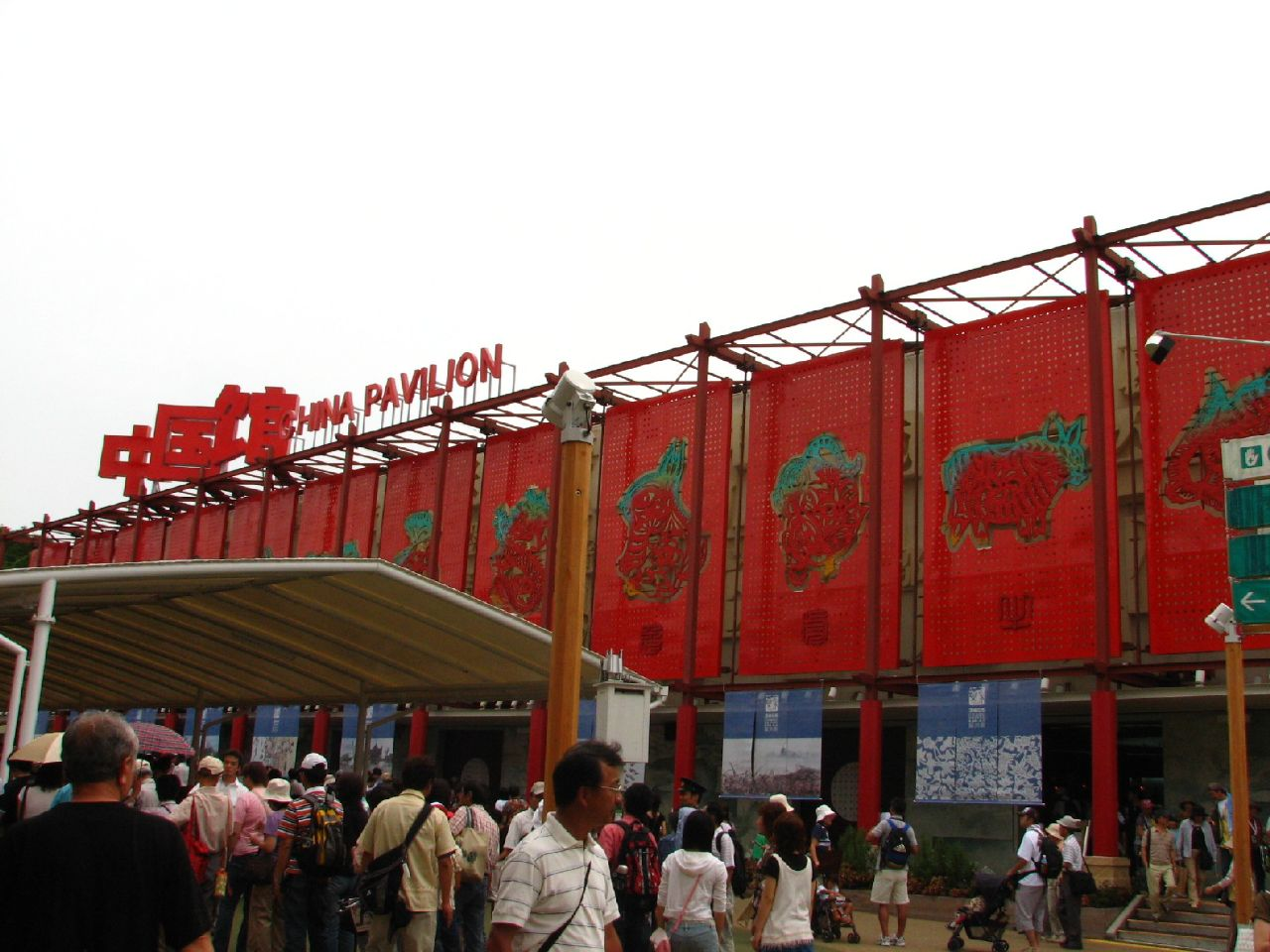 China Pavilion of Expo 2005